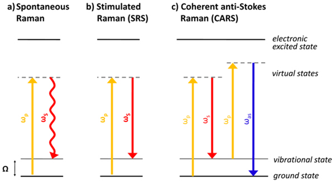 a. Energy diagram of spontaneous Raman scattering. b. Energy diagram of stimulated Raman scattering. c. Energy diagrams of coherent anti-Stokes Raman scattering. ωp is the angular frequency of pump laser and ωs is the angular frequency of Stokes laser, ωas is the angular frequency of anti-Stokes laser.